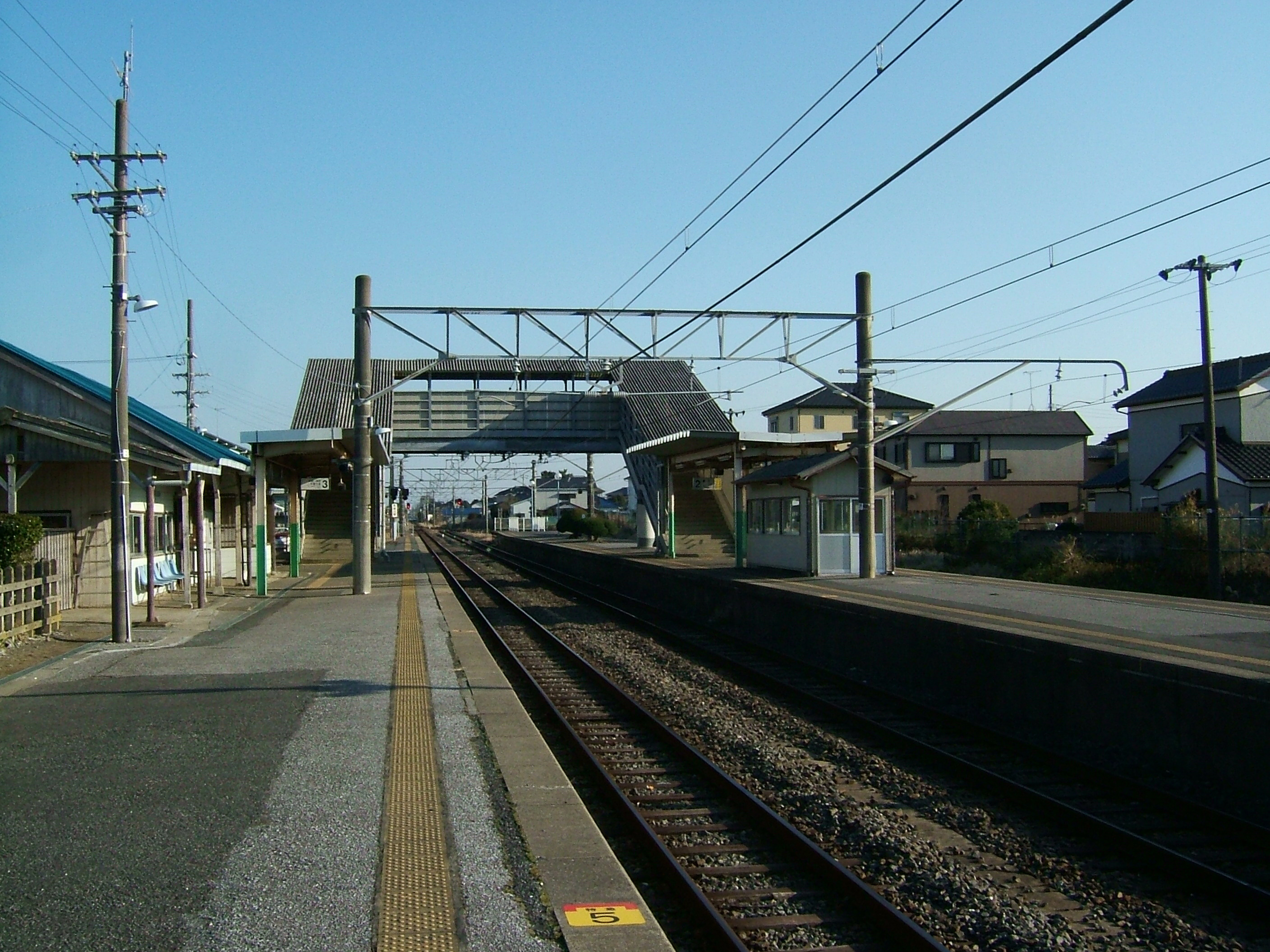 The platforms at Matsugishi station